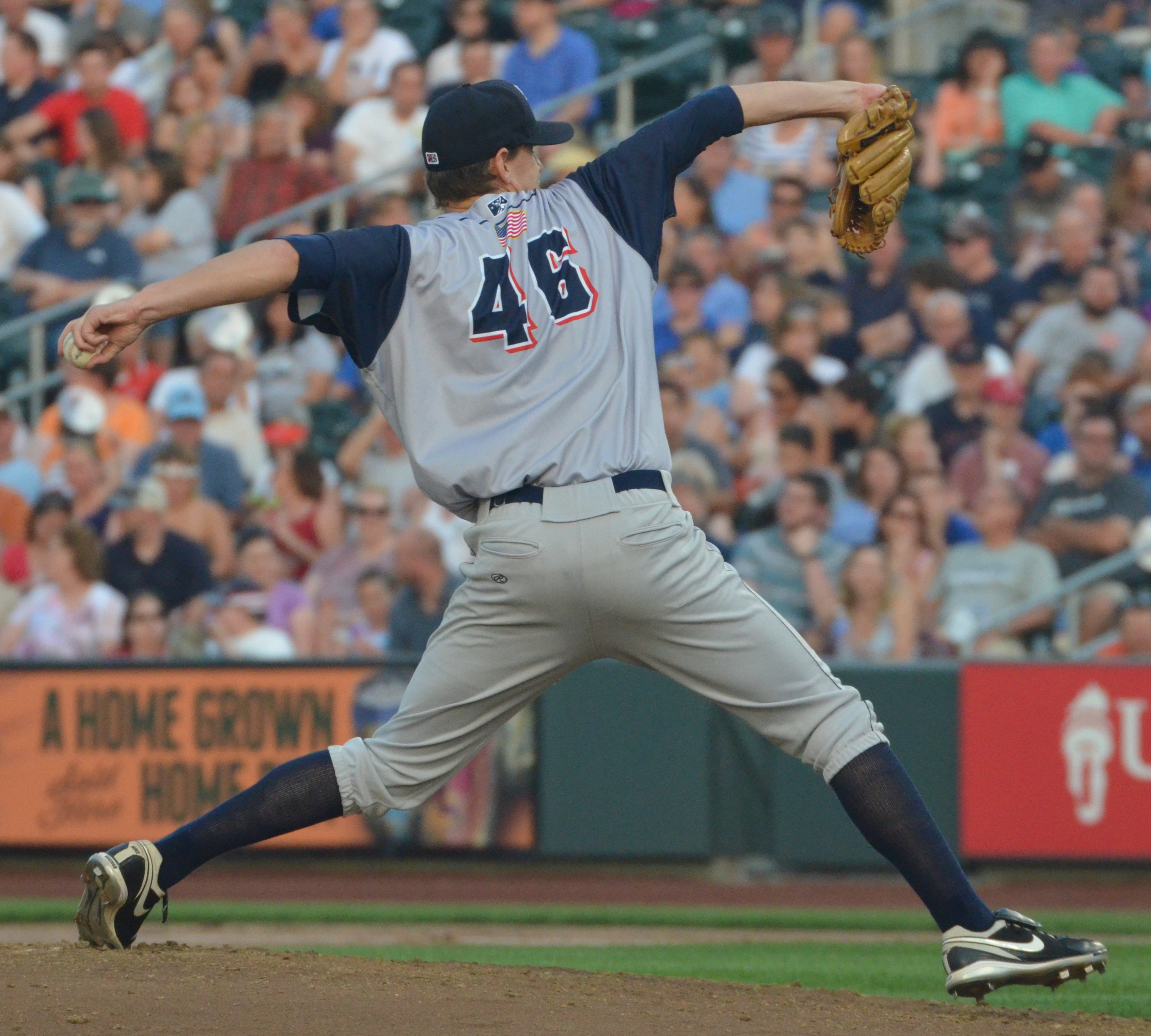 Brian Burres